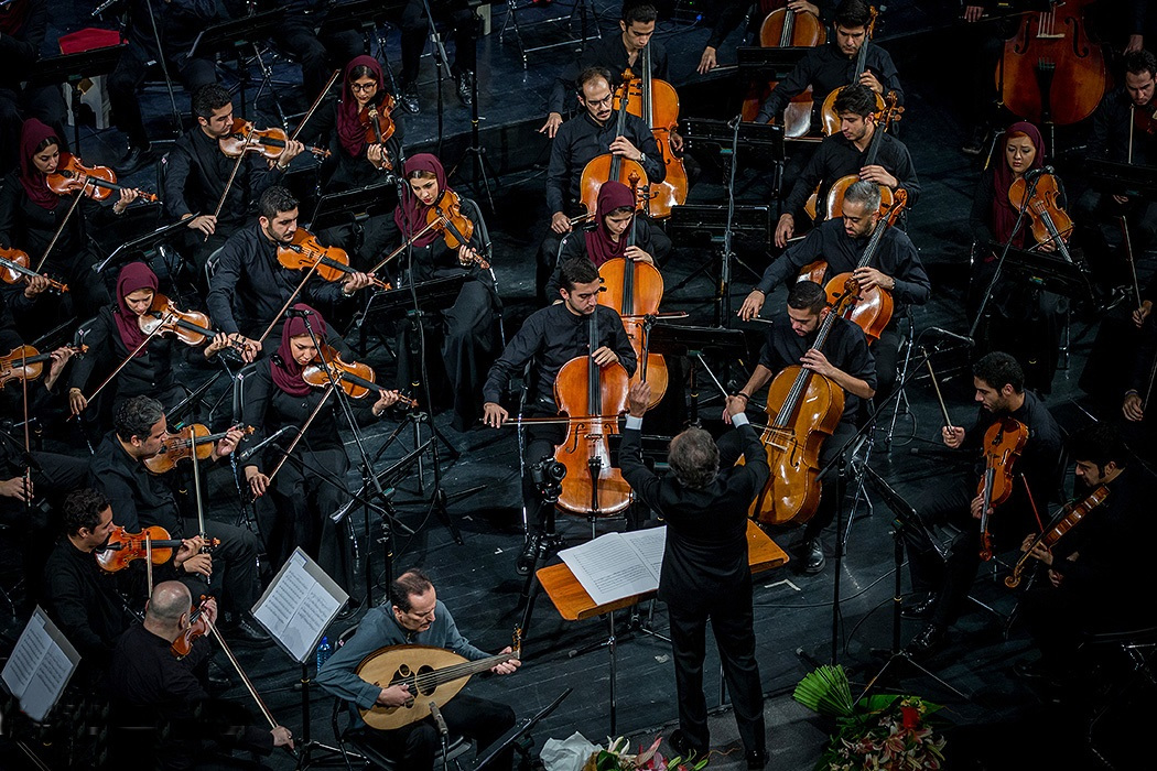 Tehran Symphony Orchestra Performs at Vahdat Hall